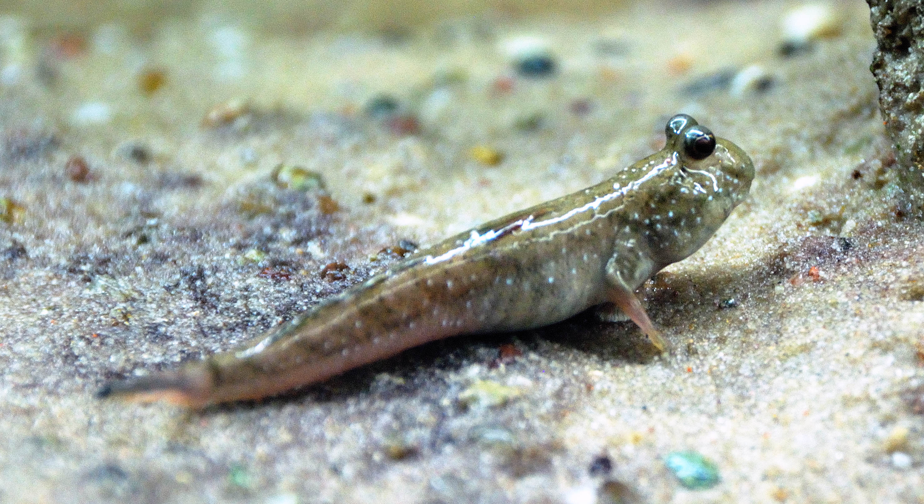 A south Asian mudskipper, Periophthalmus novemradiatus (Hamilton), photographed at the Berlin Aquarium. The fish is sitting on wet sand above the surface of the water, to which it returns periodically.